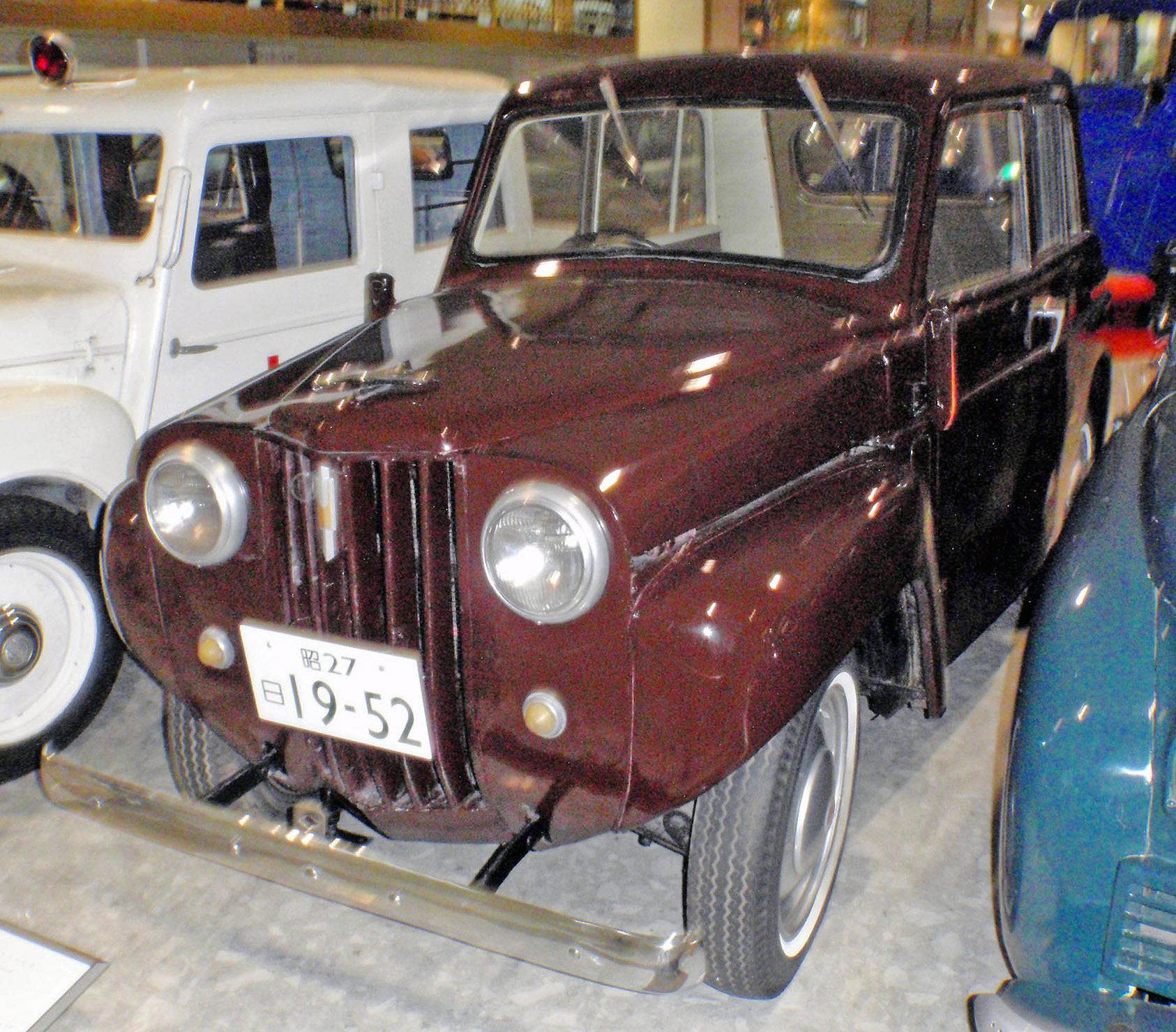 1952 Datsun DS-2 Thrift at the Motorcar Museum of Japan. This car was introduced in 1951 and replaced in 1952 by the DS-4 Thrift. It was affectionately known as the "Square Dandy" at the time.